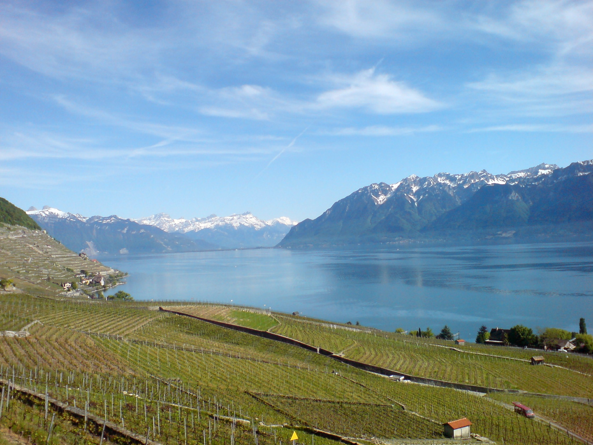 Lavaux Vineyards and lake Geneva, near Riex, Vaud. Mountains visible on the photo are (from left to right): Tour de Mayens, 2326 m Tour d'Aï, 2331 m Grand Muveran, 3051 m Dent Favre, 2919 m Dent de Morcles, 2969 m Grand Combin, 4314 m Le Gramont, 2172 m Cornettes de Bise, 2432 m